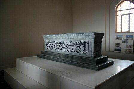 مقبره امیرکلال در بخارا